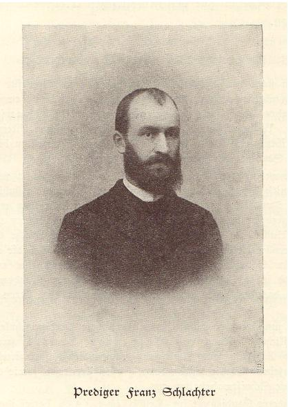 Franz Eugen Schlachter, first upload to de.wikipedia by Benutzer:KHKauffmann on 2. Apr 2005, copied from "Ihm allein die Ehre" by Evangelische Gesellschaft Bern